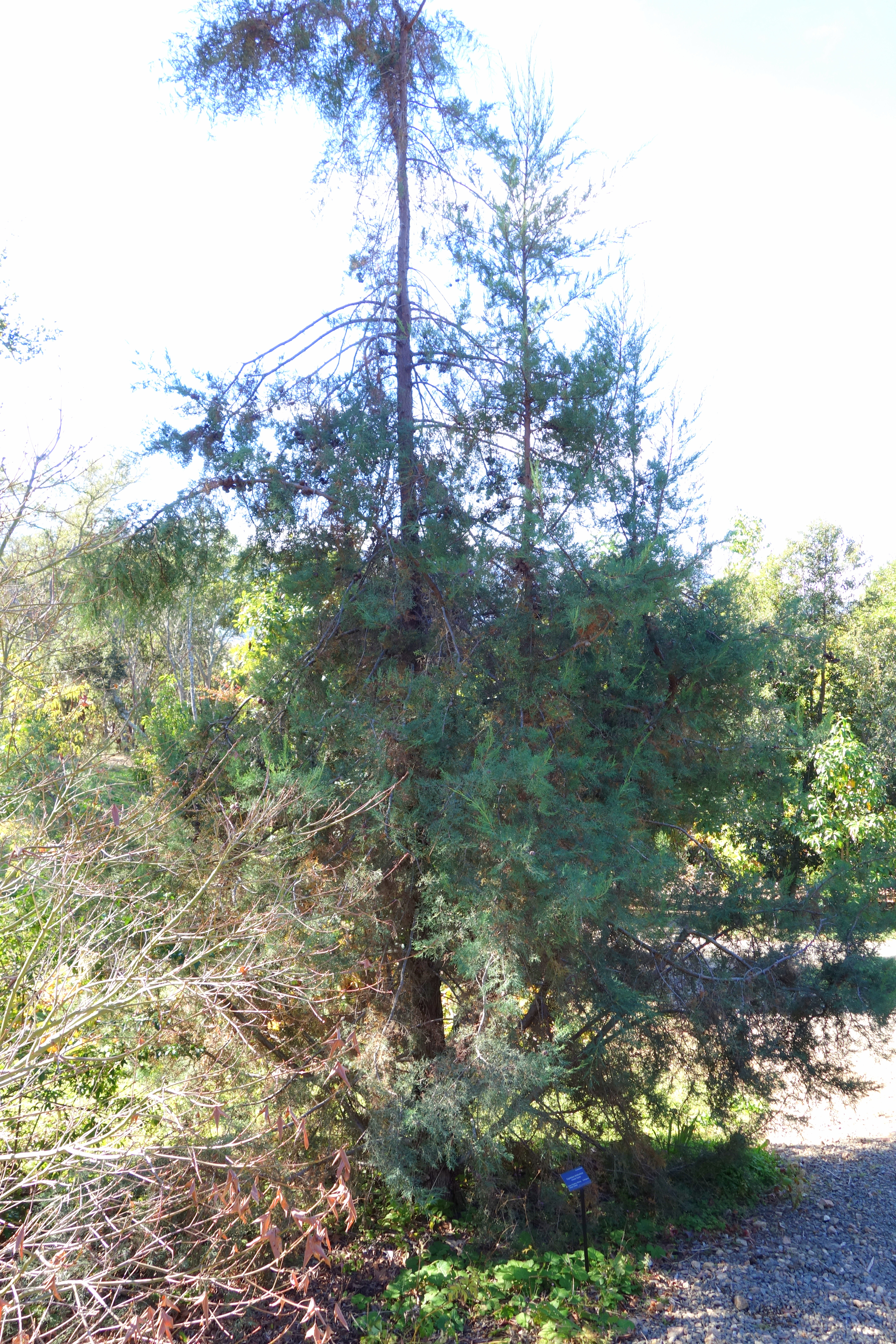 Botanical specimen in Quarryhill Botanical Garden, Glen Ellen, California, USA.